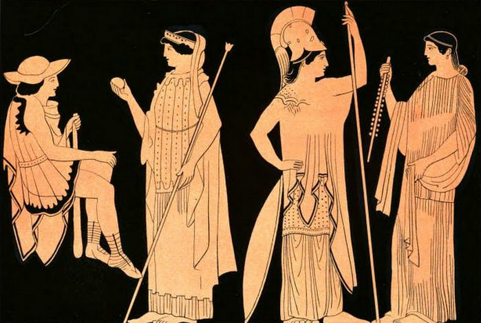 Judgement of Paris